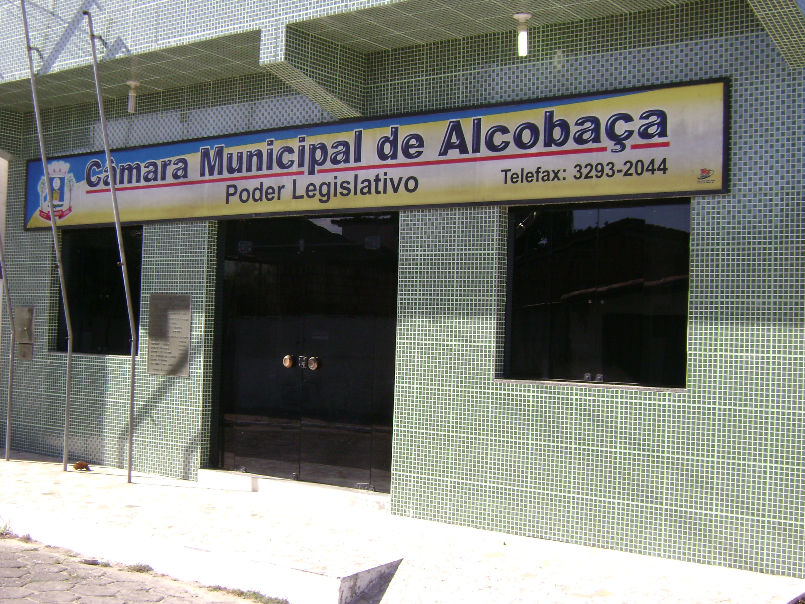 Town Hall of Alcobaça, in the state of Bahia, Brazil.